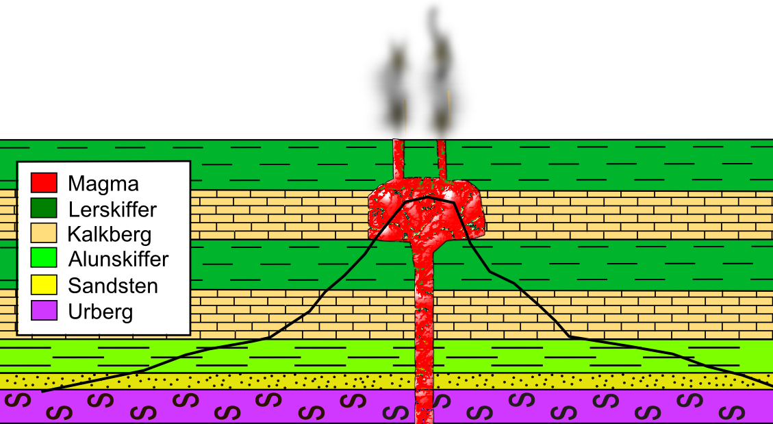 Cross section of a table mountain of Västergötland (Sweden) forming durin eruption.